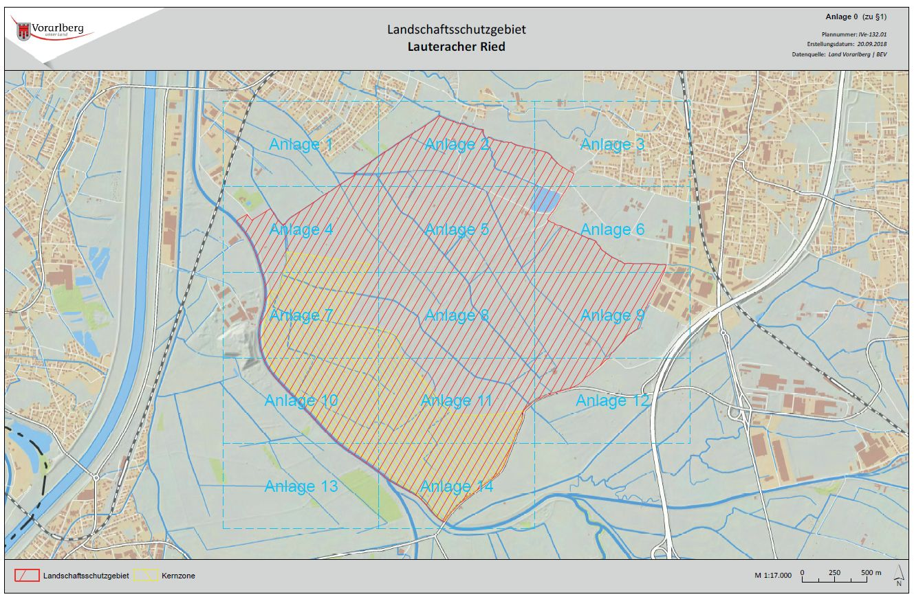 Overview of the European and Landscape Protection Area Lauteracher Ried. Extracted from Annex 0 to the decree of the state government over the landscape conservation area "Lauteracher Ried". 63/2002 last changed by LGBl.Nr. 76/2018